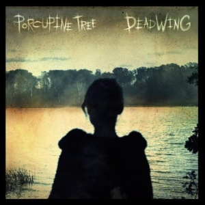 Cover art of album "Deadwing" by Porcupine Tree.